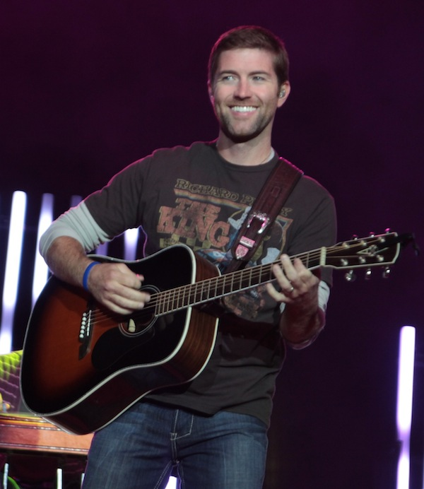 Joshua Otis Turner performing on the Grandstand Stage at the Walworth County Fair on September 3rd, 2010.